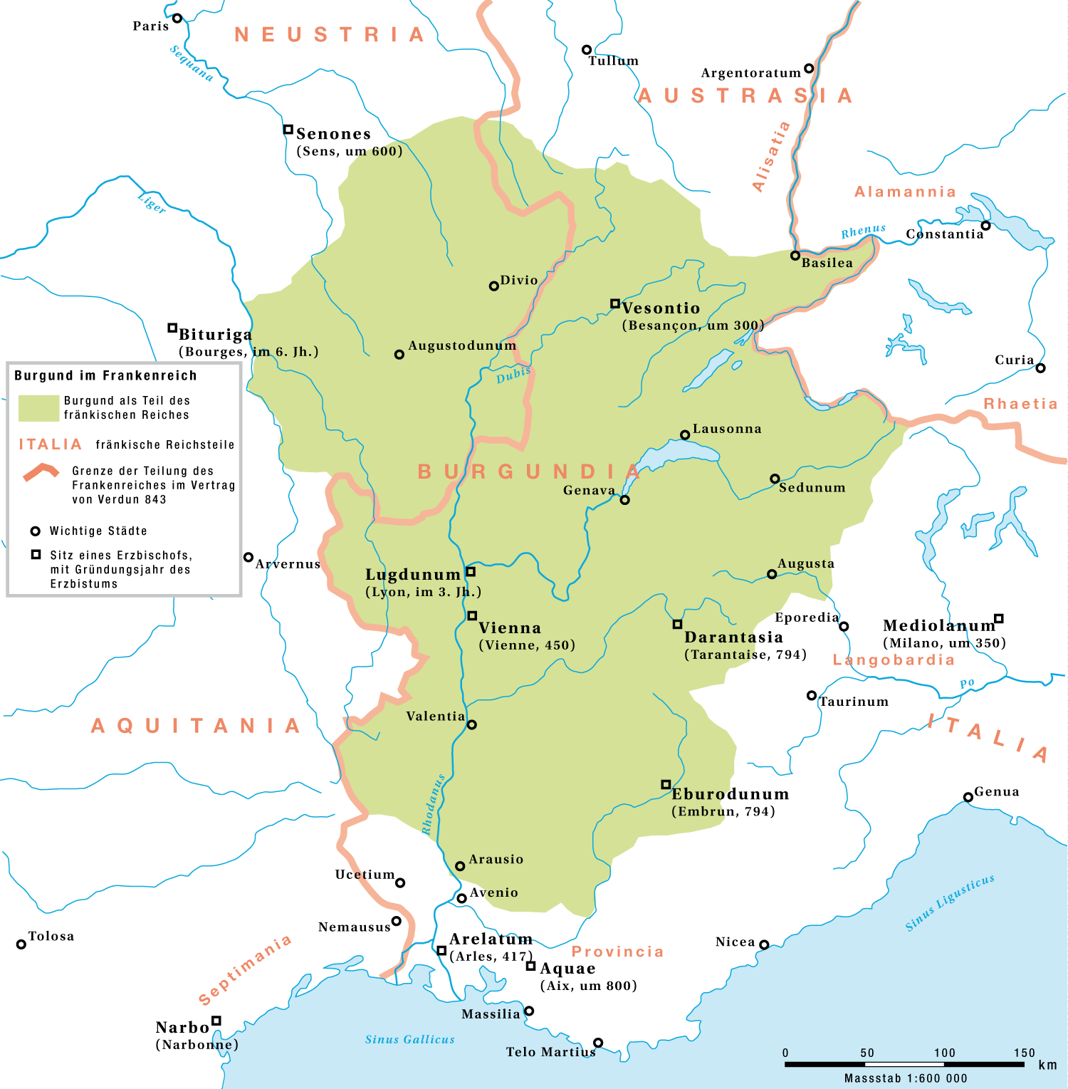 Burgundy as a part of the Frankish Empire until the division by the Treaty of Verdun, 843